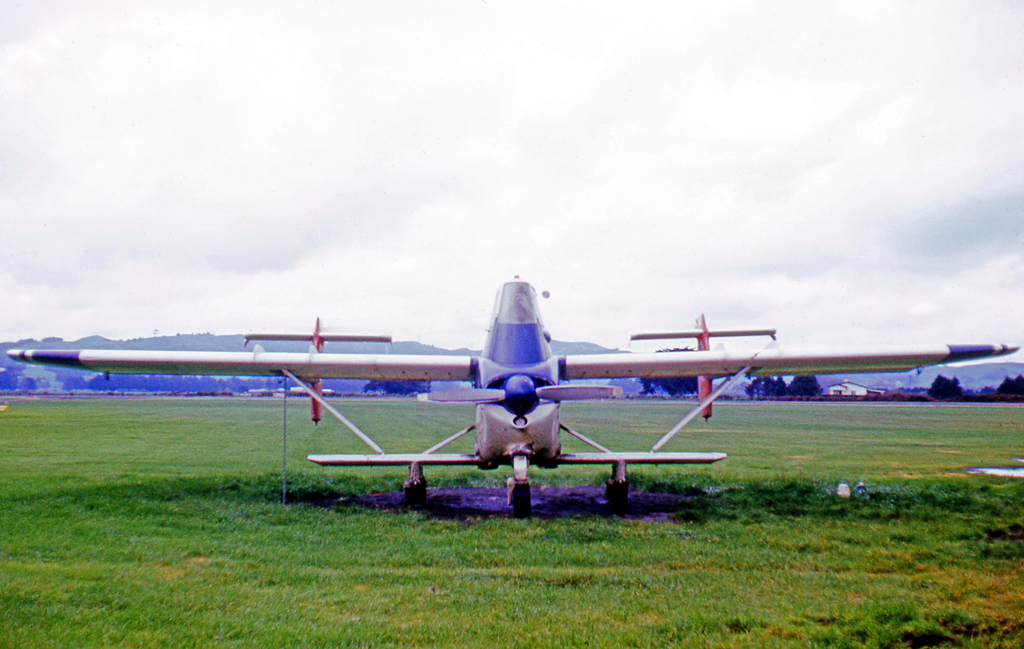 Transavia PL-12 Airtruck ZK-CVD at Ardmore Airfield NZ in 1973